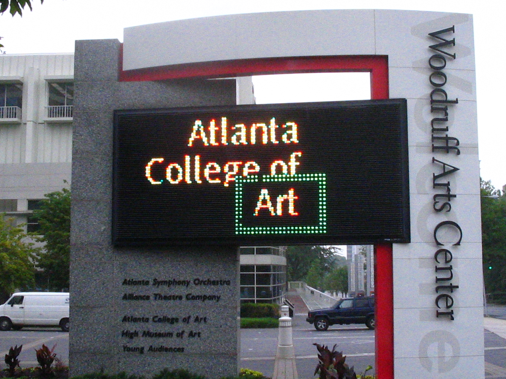 Shot in the spring of 2006, this is this last sign advertising Atlanta College of Art.